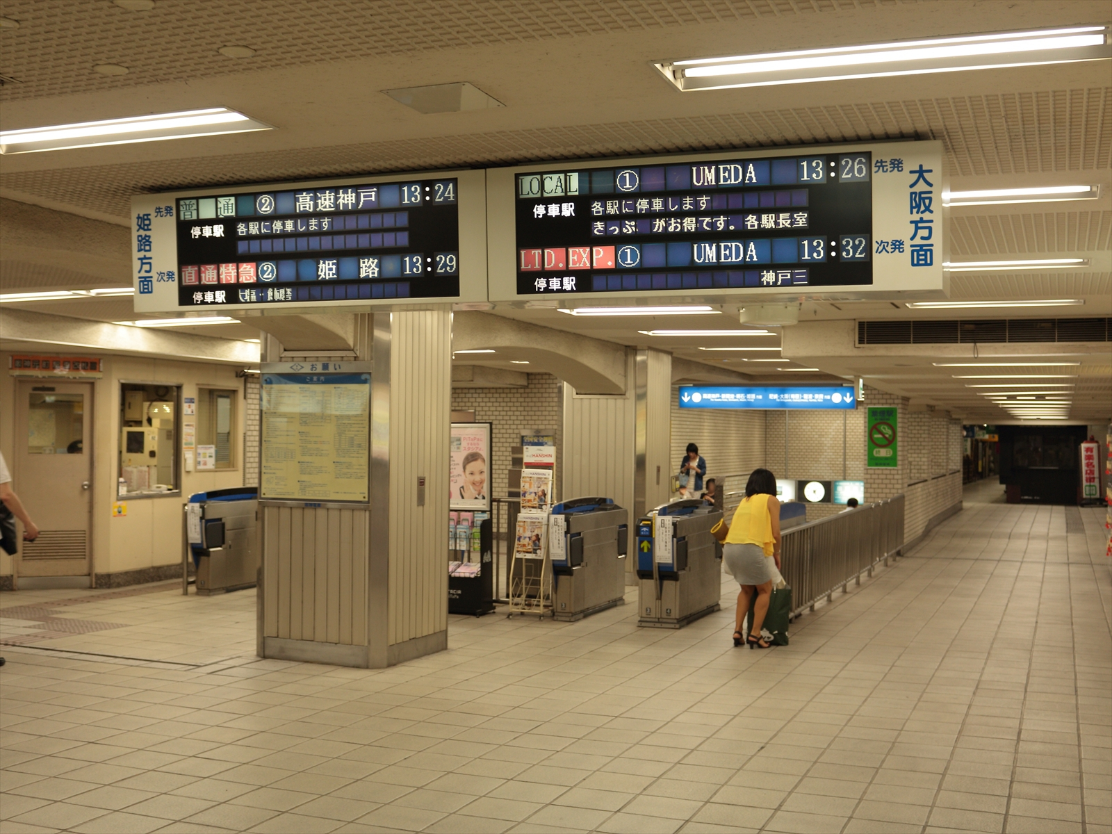 East Ticket barrier from Motomachi Station (Hanshin).